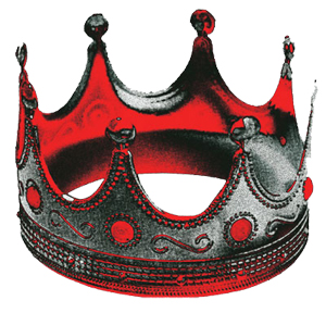 LEEEEEEEEEEEEEEEEEEEE esto importante Lld: LLLLLLLLLeeeeeeeeee esto importante